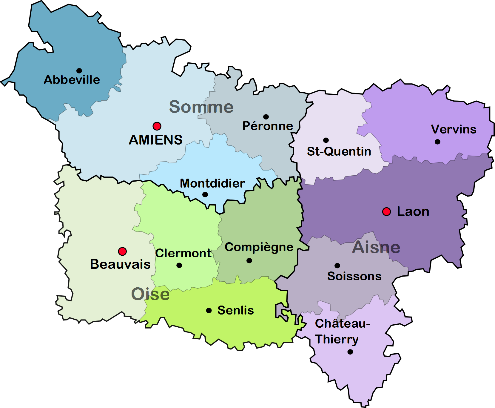 Map of Picardie (France)